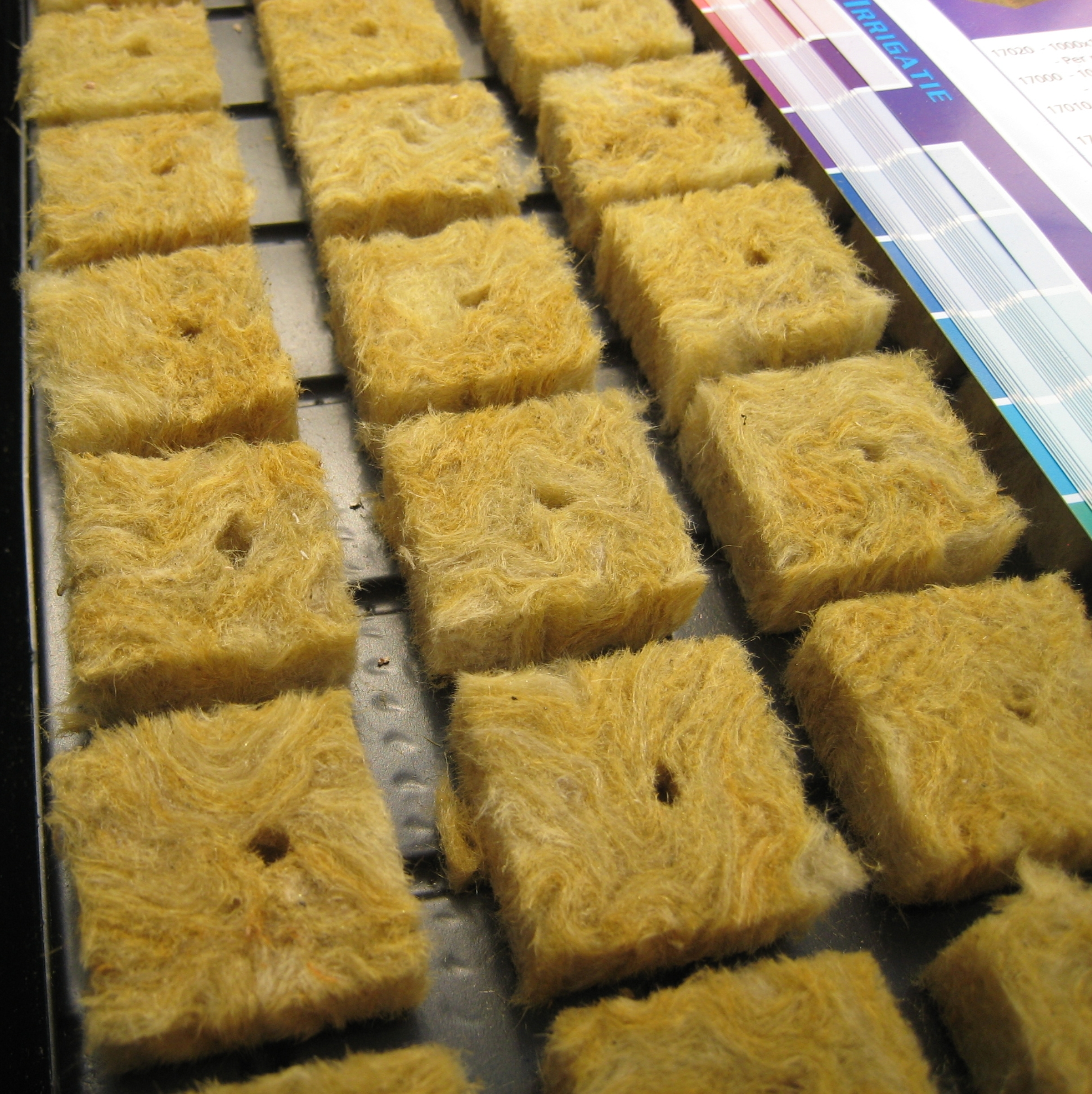 Cubes made of rockwool for indoor cannabis cultivation